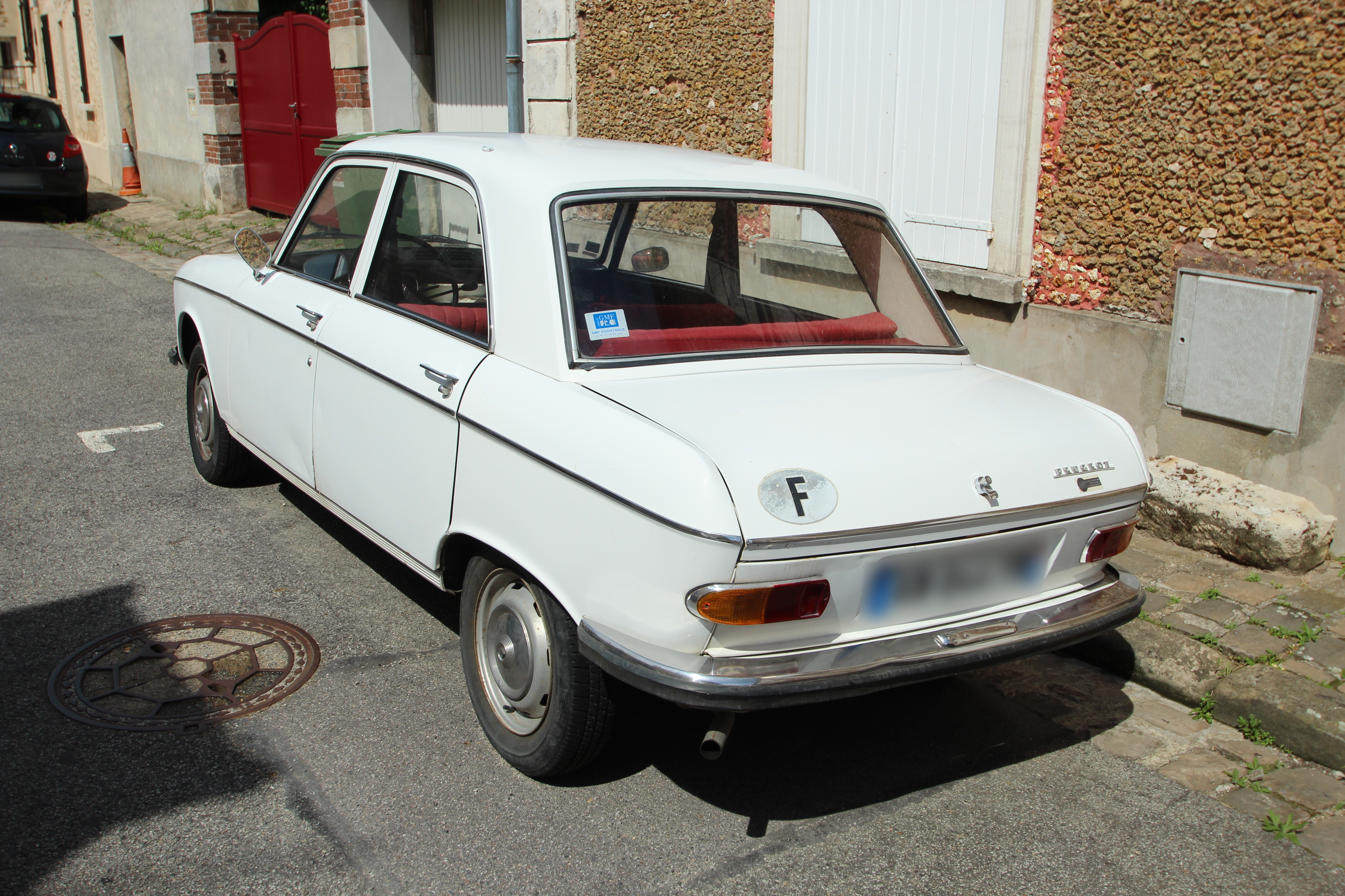 White Peugeot 204 in Cernay-la-Ville, France. This image was uploaded as part of L'Été des villes 2015.